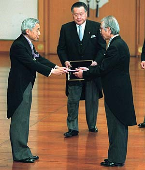 Emperor Akihito conferred the Order of Culture on Hideki Shirakawa, Professor Emeritus of the University of Tsukuba, at the Imperial Palace in Chiyoda Ward, Tōkyō Metropolis on November 3, 2000. Shirakawa was given the order diploma from Yoshirō Mori, Prime Minister.